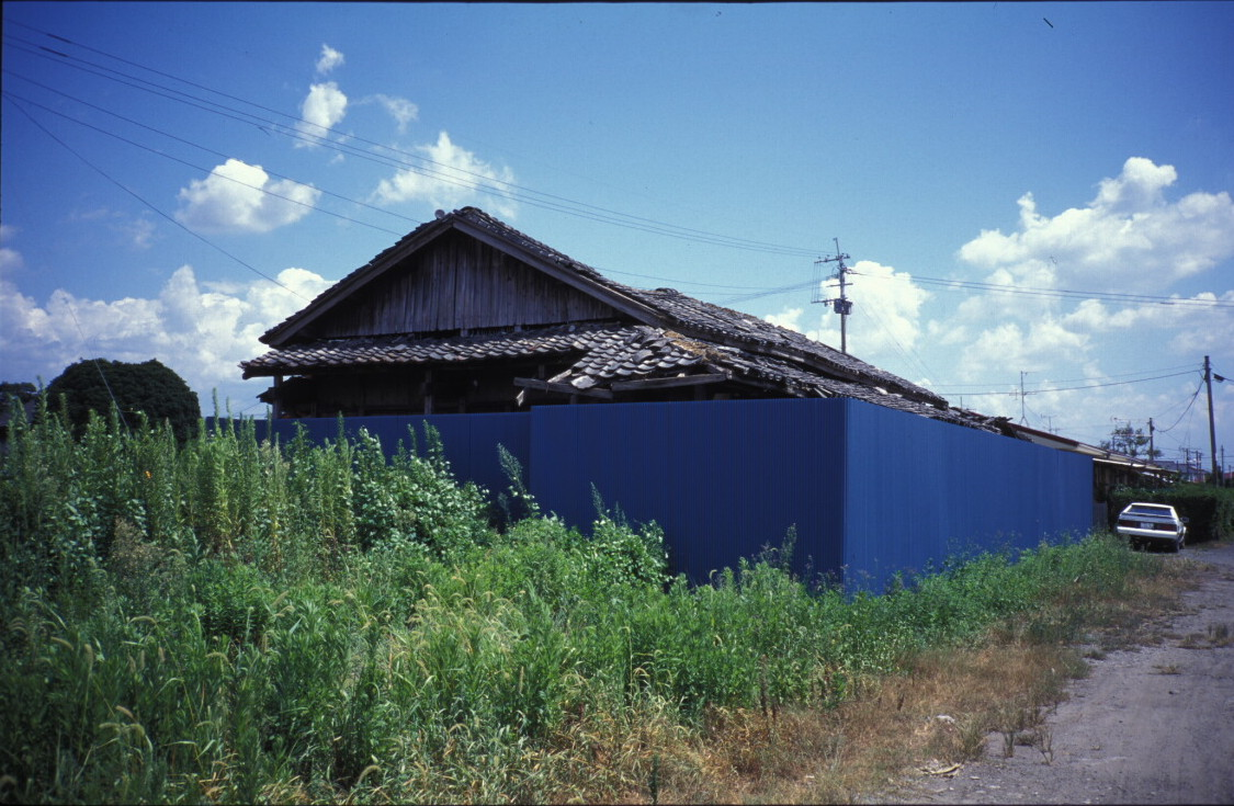 kutamieki_yagaonnsenntetudou